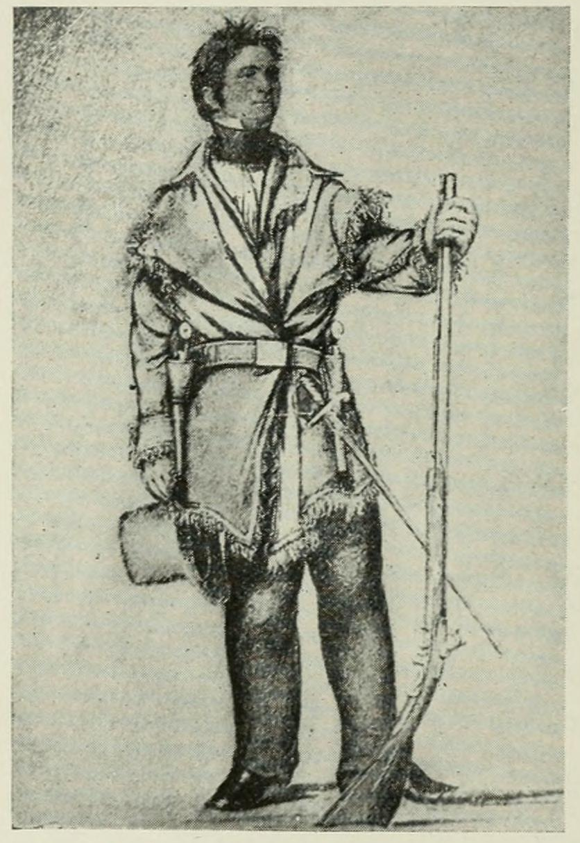 George Catlin sketch of Henry Dodge as a ranger or dragoon commander, 1832-1834.